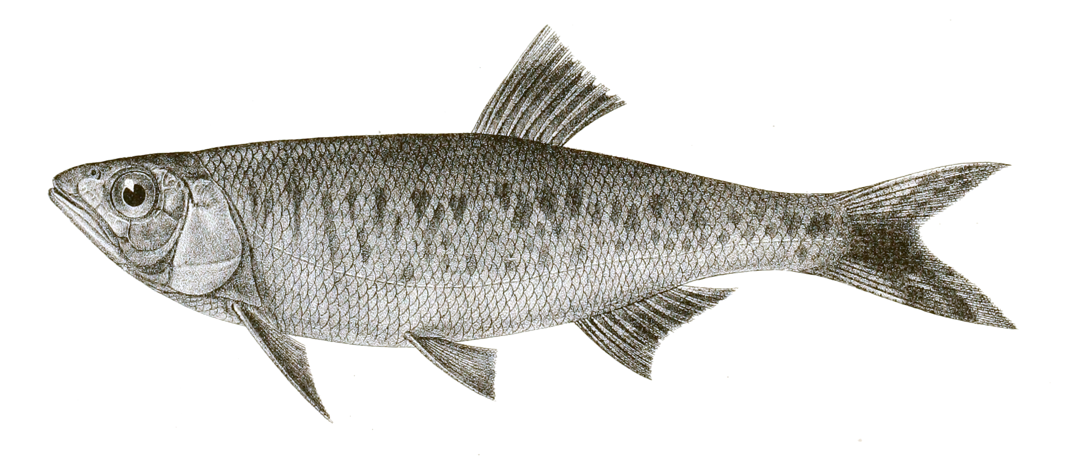 The species names / identity need verification - original names from plate are included here. The original plates showed the fishes facing right and have been flipped here. Barilius tileo